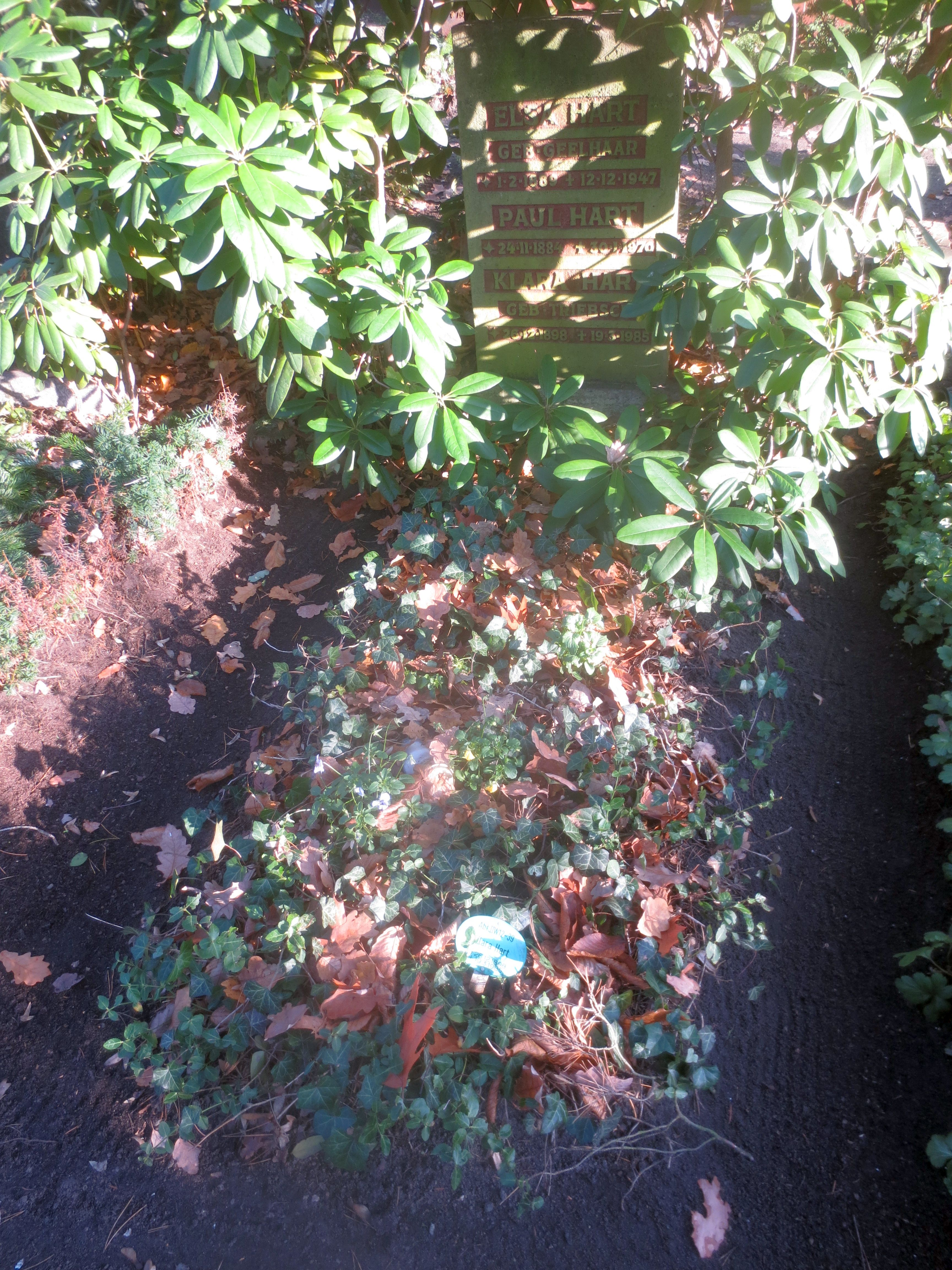 Grave of the civil servant and politician Paul Hart (1884-1970) auf dem Friedhof Heerstraße in Berlin-Westend.